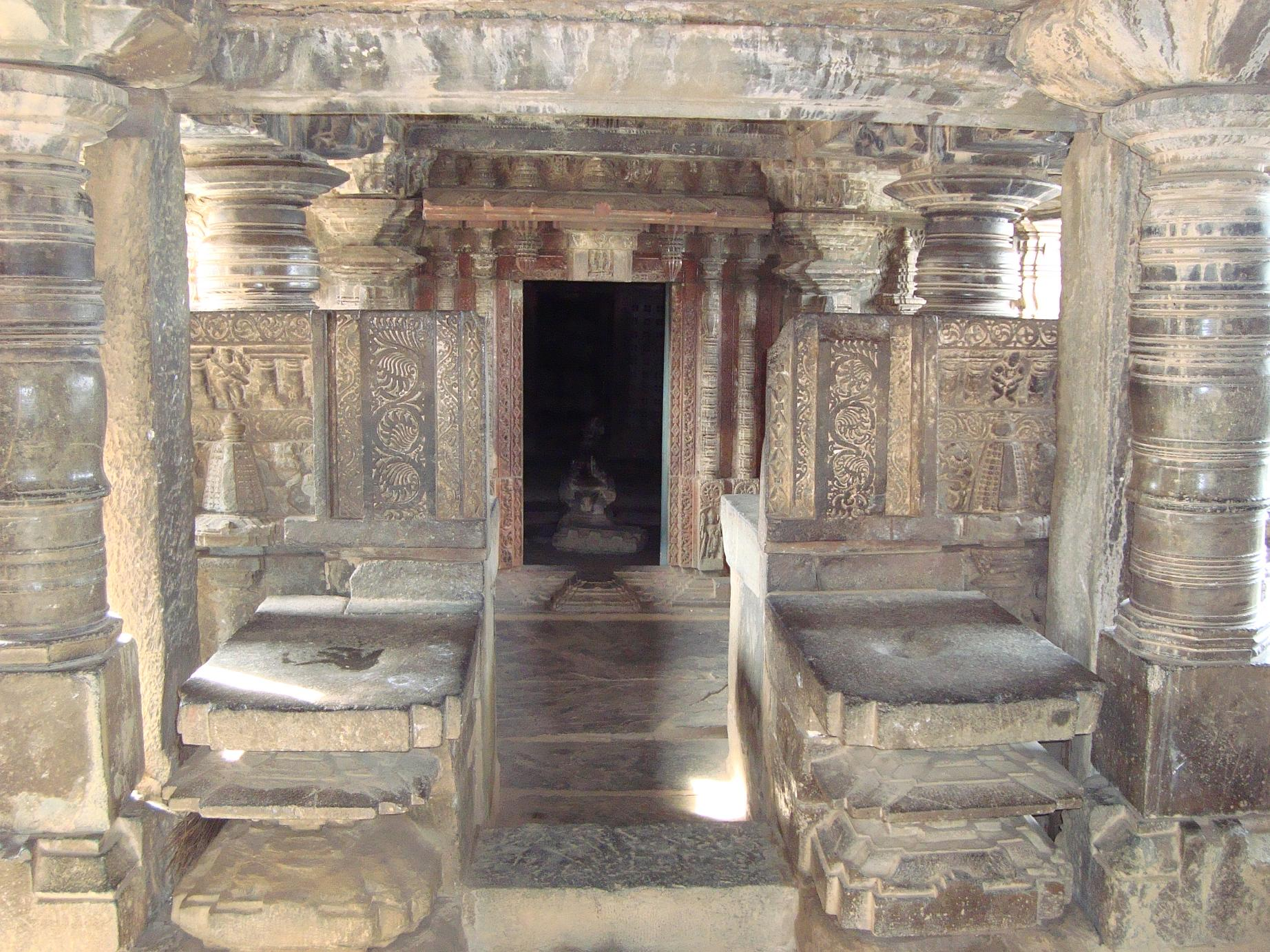 Chaudayyadanapura Mukteshwara temple, Haveri District, North Karnataka, India Source and Author : Manjunath Doddamani, Gajendragad / Hubli, Karnataka(India)